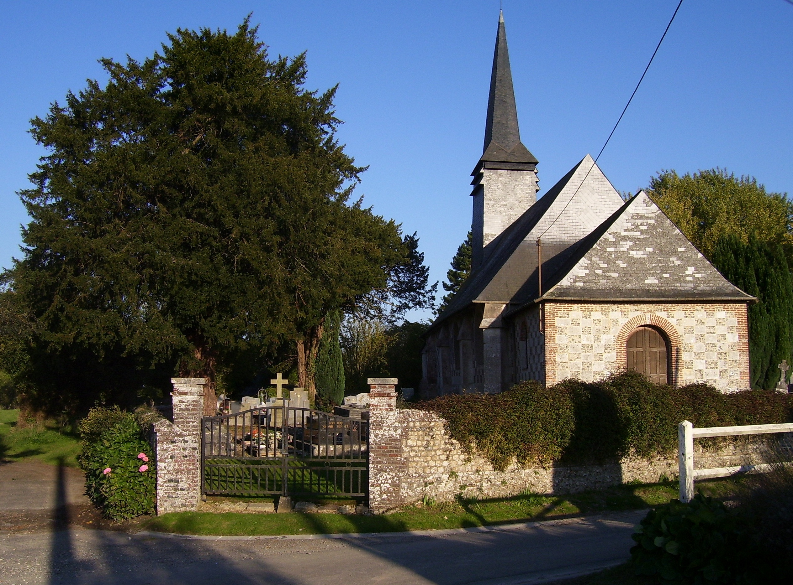 Church Saint-Georges of Saint-Georges-du-Mesnil (Eure, Upper Normandy) France.